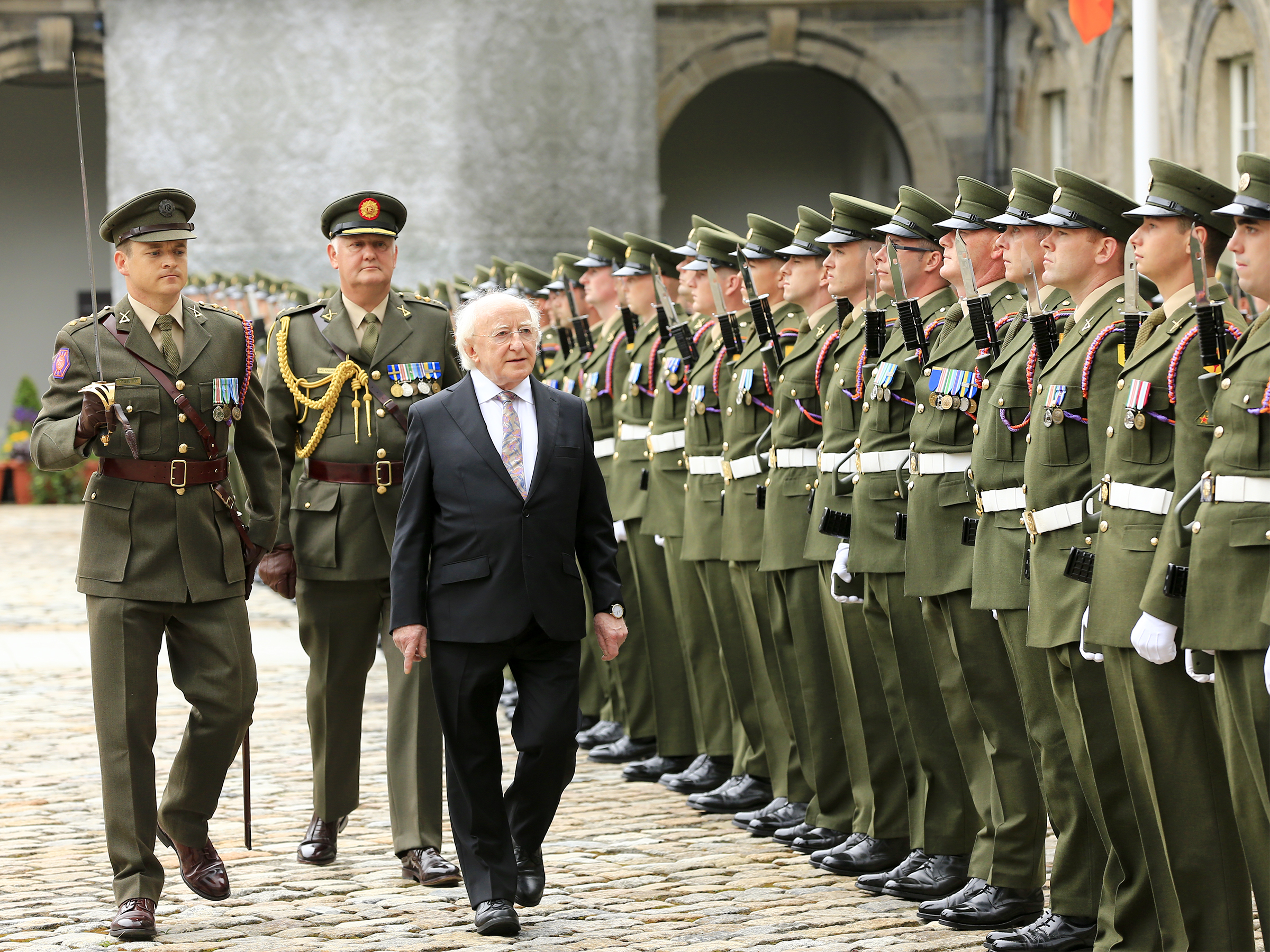 National Day of Commemoration 2014